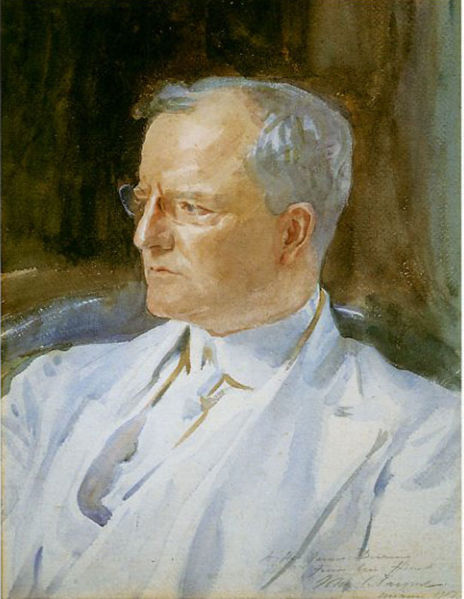 James Deering, 1917, by John Singer Sargent